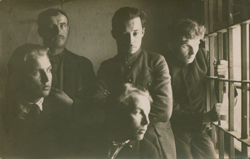 Inmates in Varniai concentration camp (bottom row, first from right is Butkų Juzė-Juozas Butkus)